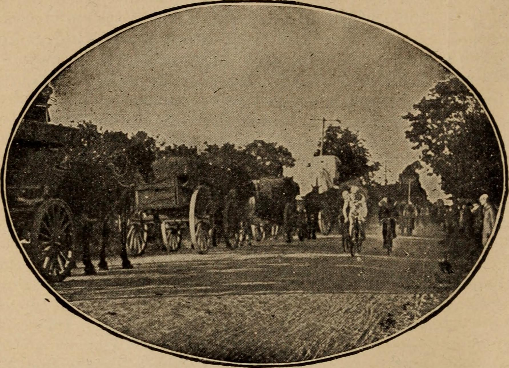 Title: Trolley exploring : an electric railroad guide to historic & picturesque places about New York, New Jersey, and New England Year: 1904 (1900s) Authors: Childe, Cromwell Subjects: Publisher: Brooklyn, N.Y. : Brooklyn Daily Eagle Text Appearing Before Image: 32 Trolley Exploring. The routes to Coney Island, Fort Hamilton, Bath, Ber-gen, Manhattan and Brighton Beaches and Cacne^rsie, take the trolley traveler through a land some 7 miles square that tenyears ago was sleepy farm land, dotted with tiny villages, but nowhas risen into rapidly growing suburbs full of life. From Pros-pect Pa.rk and Greenwood Cemetery, 7 miles from the oceanshore, the actual city has crept very nearly half way down. All Text Appearing After Image: MARKET WAGONS ON THE MERRICK ROAD NEAR JAMAICA. this flat and level plain is historic, though few landmarks nowremain. In this vicinity were the first Dutch settlements ofBrooklyn. To a greater degree than any other district about hereFlatle^nds has kept up her primitive life. Yet this is fast going. Separated from the maze of connecting lines that but join andpatch the great system together the most interesting of the throughtrolley routes of Long Island are: ROUTE 15. To Fort Hamilton from Third avenueand Sixty-fifth street, through Bay Ridge. This starting point is to be reached, as stated above, also fromHamilton Avenue Ferry (Whitehall street, New York), and byconnecting trolley cars over the Bridge. A 5-cent fare. One of the The Long Island Field. 33 prettiest of the shorter runs. The way leads through BayRidge, down Third avenue, shaded by superb old trees. Thereare fine views of New York Bay and the Narrows. FortHamilton, the terminus, is 8.J- miles from New York City Hall. Th